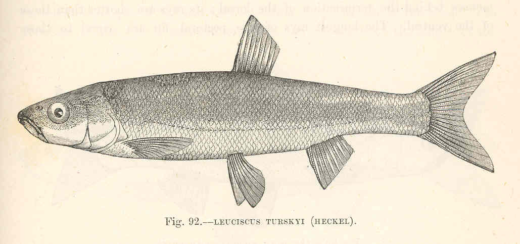 Leuciscus turskyi (Heckel) Subject: Cyprinidae, Leuciscus Tag: Fish